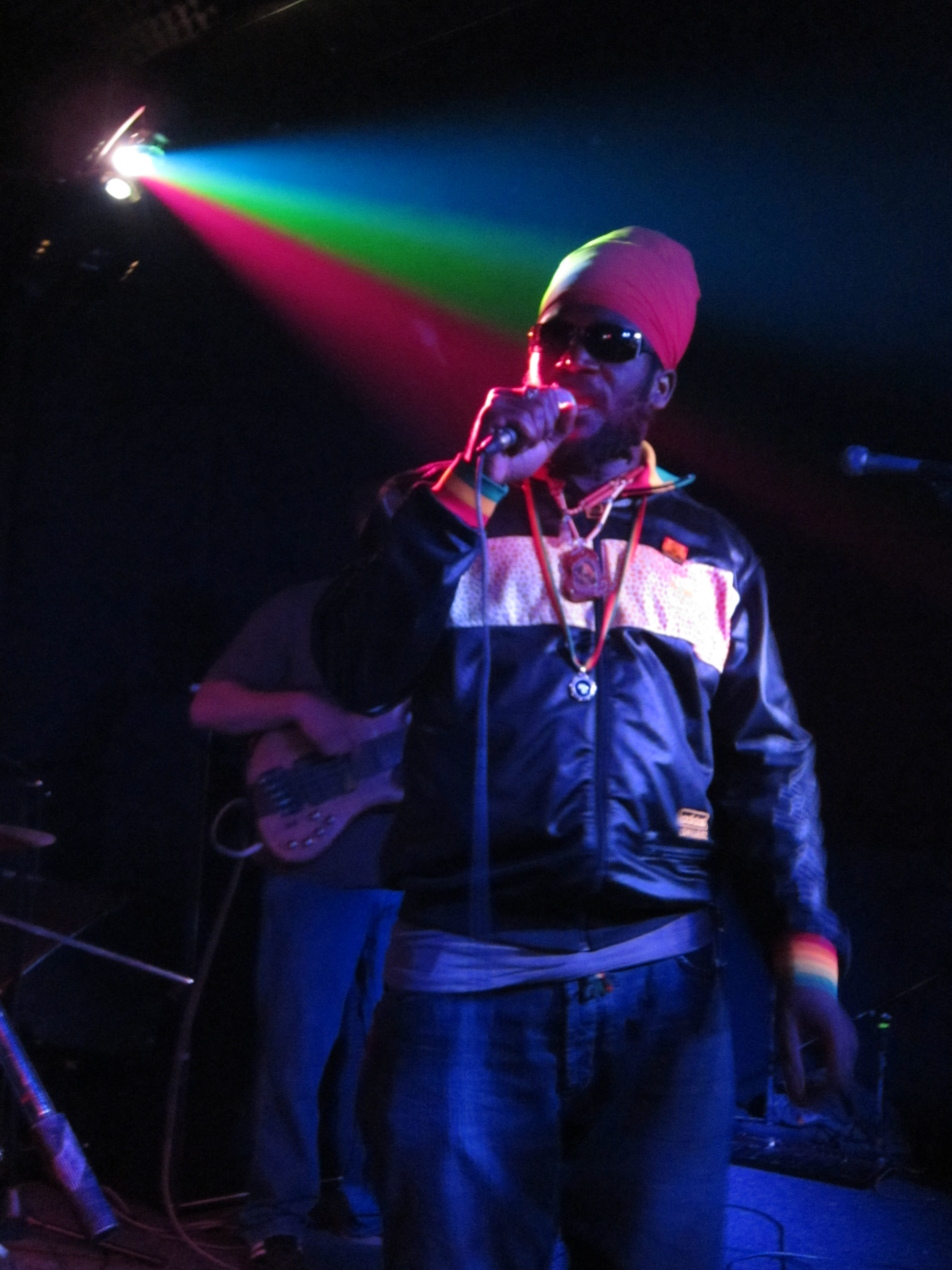 Effortlessly uploaded by Eye-Fi